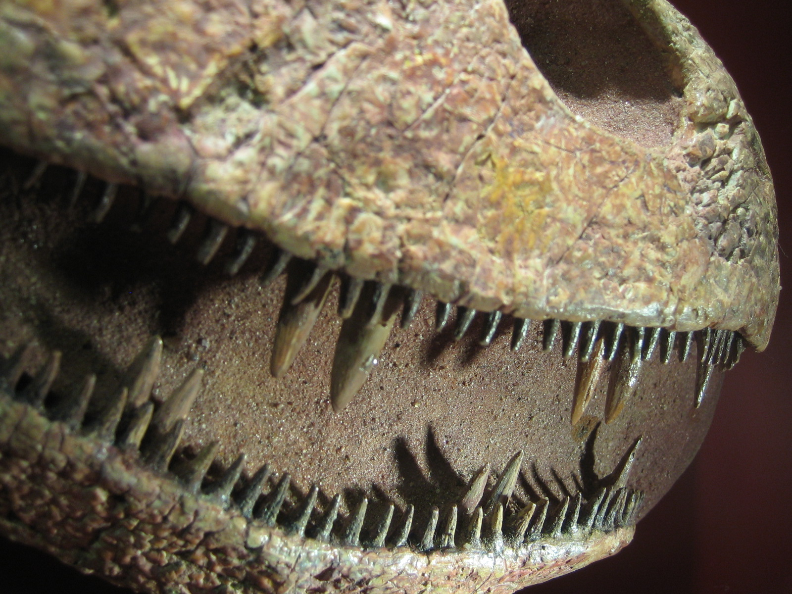 Platycephalichthys in Cosmocaixa, Barcelona